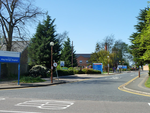 Main road entrance, King George Hospital